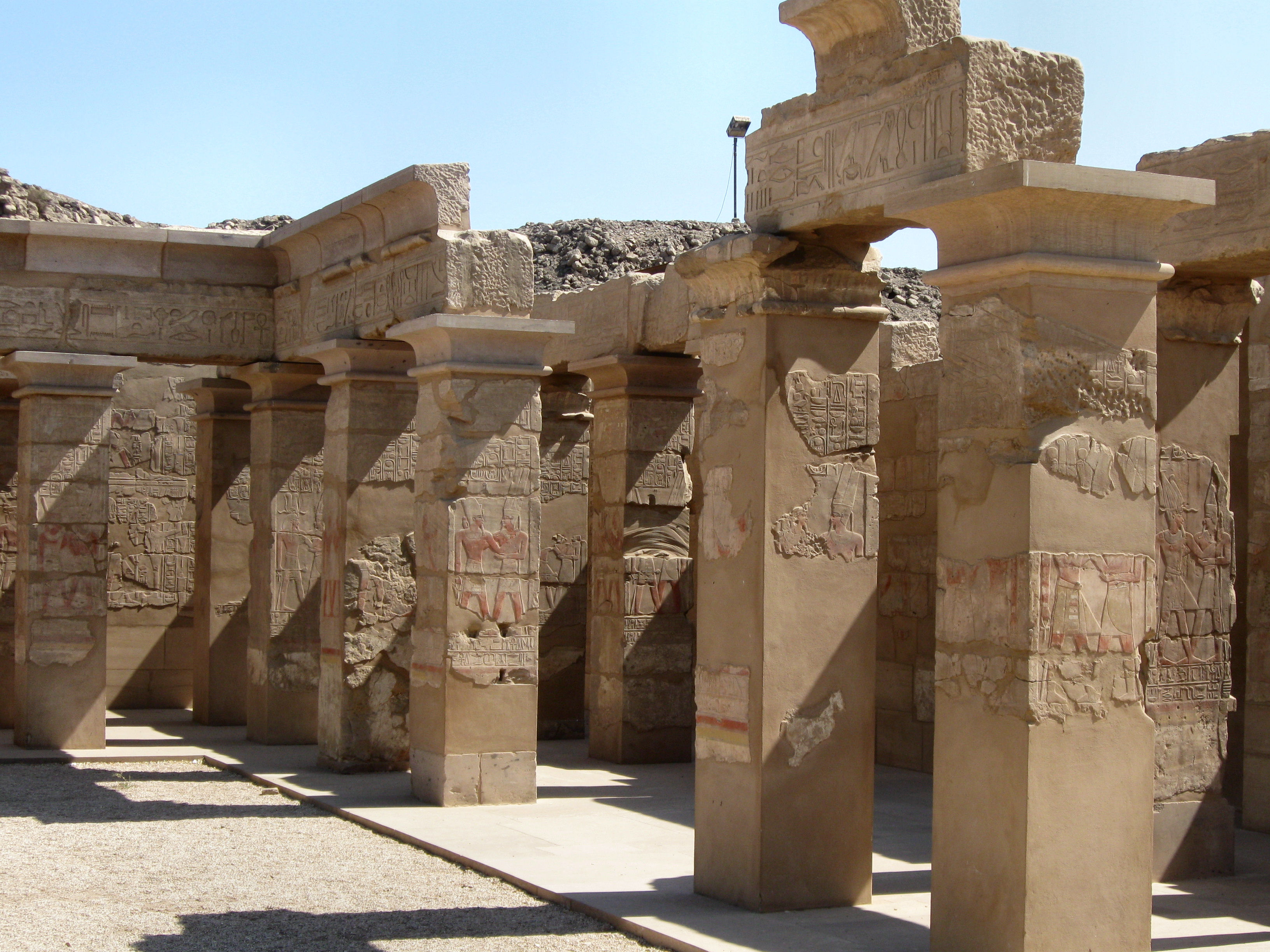 Thutmose IV’s peristyle hall was reconstructed in the Karnak Open Air Museum by French Egyptologists from the Centre Franco-Egyptien D'Étude des Temple de Karnak or CFEETK. This pharaoh erected this brightly painted sandstone peristyle hall in the court of the fourth pylon of Karnak during his reign.